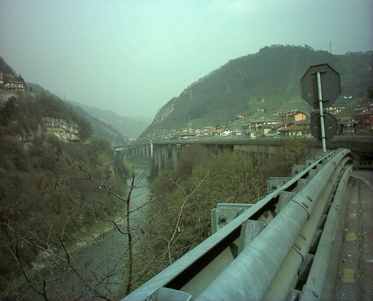 SS470 near Sedrina, Bergamo, Italy